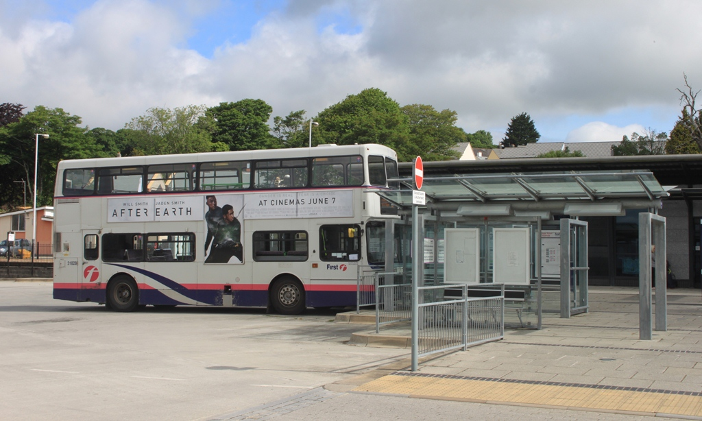 First Devon and Cornwall's 31828 has just arrived at St Austell bus station. It is a Northern Counties Palatine registered R908RYO.